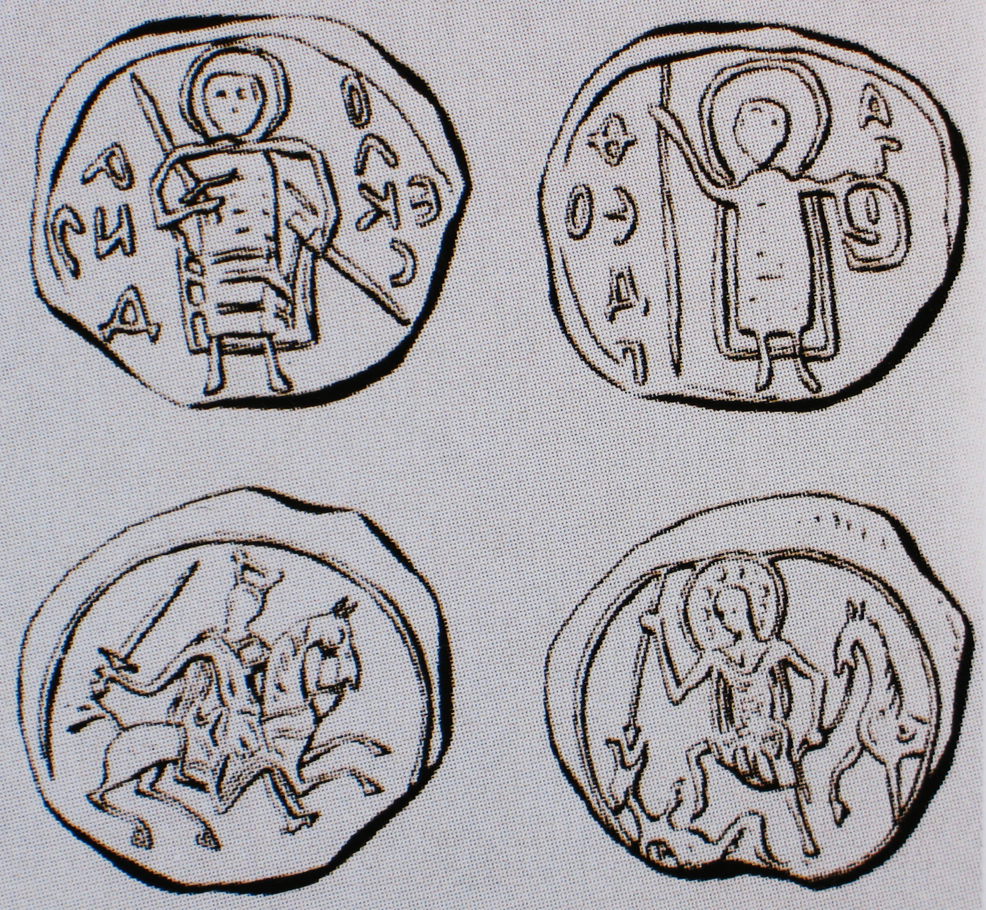 The seals of . Две двухсторонние печати Александра Невского.